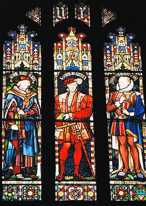 English stained glass, from Sydney University Great Hall